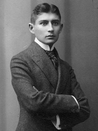 A portrait of the Bohemian writer Franz Kafka shot in Atelier Lotte Jacobi.